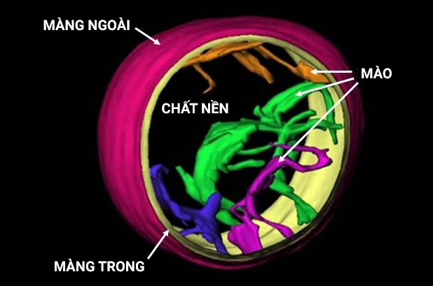 Vietnamese translation of .